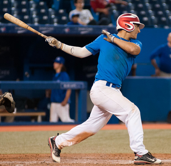 Abraham Toro swings at a pitch in 2014